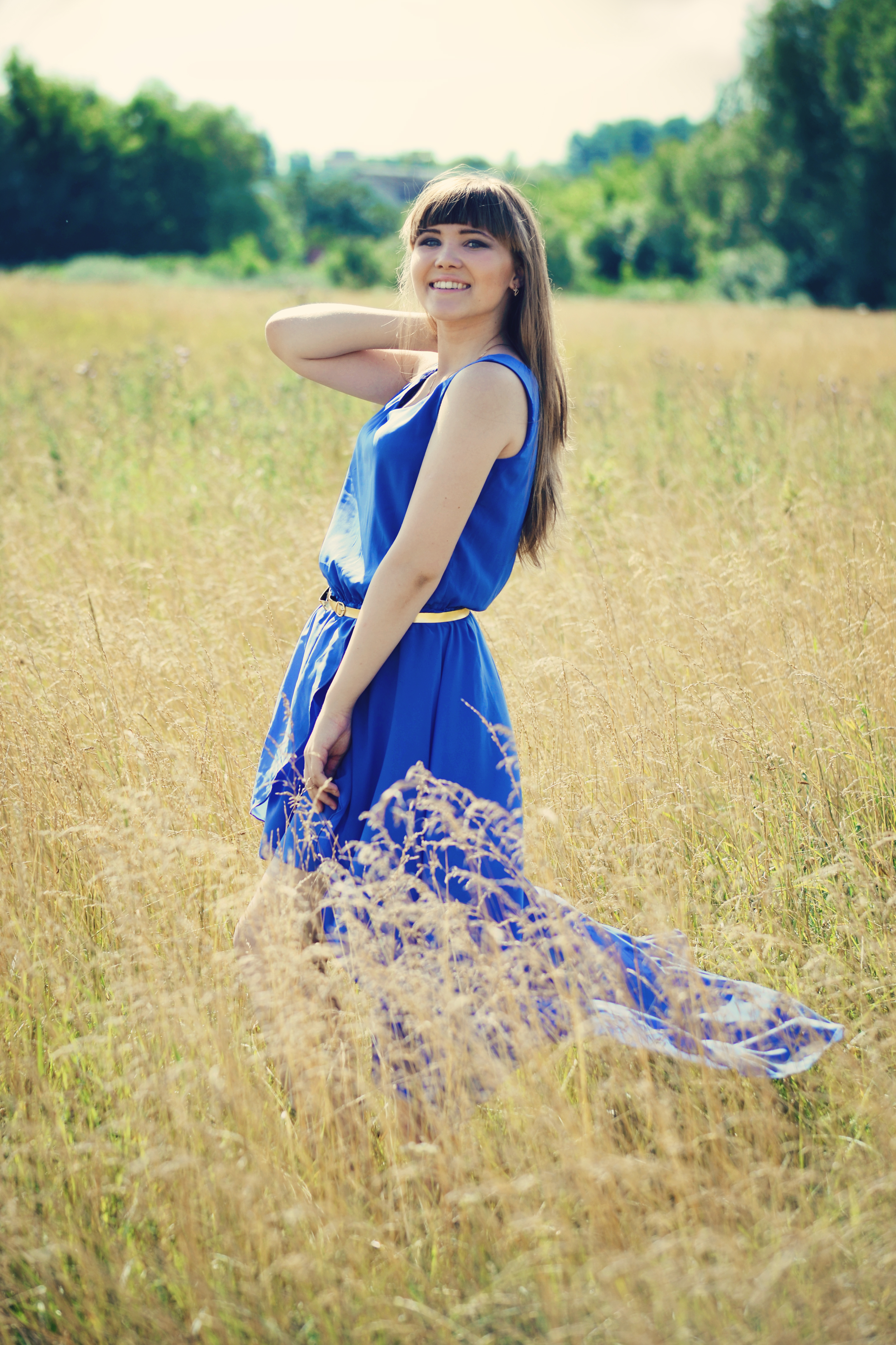 Russian girl